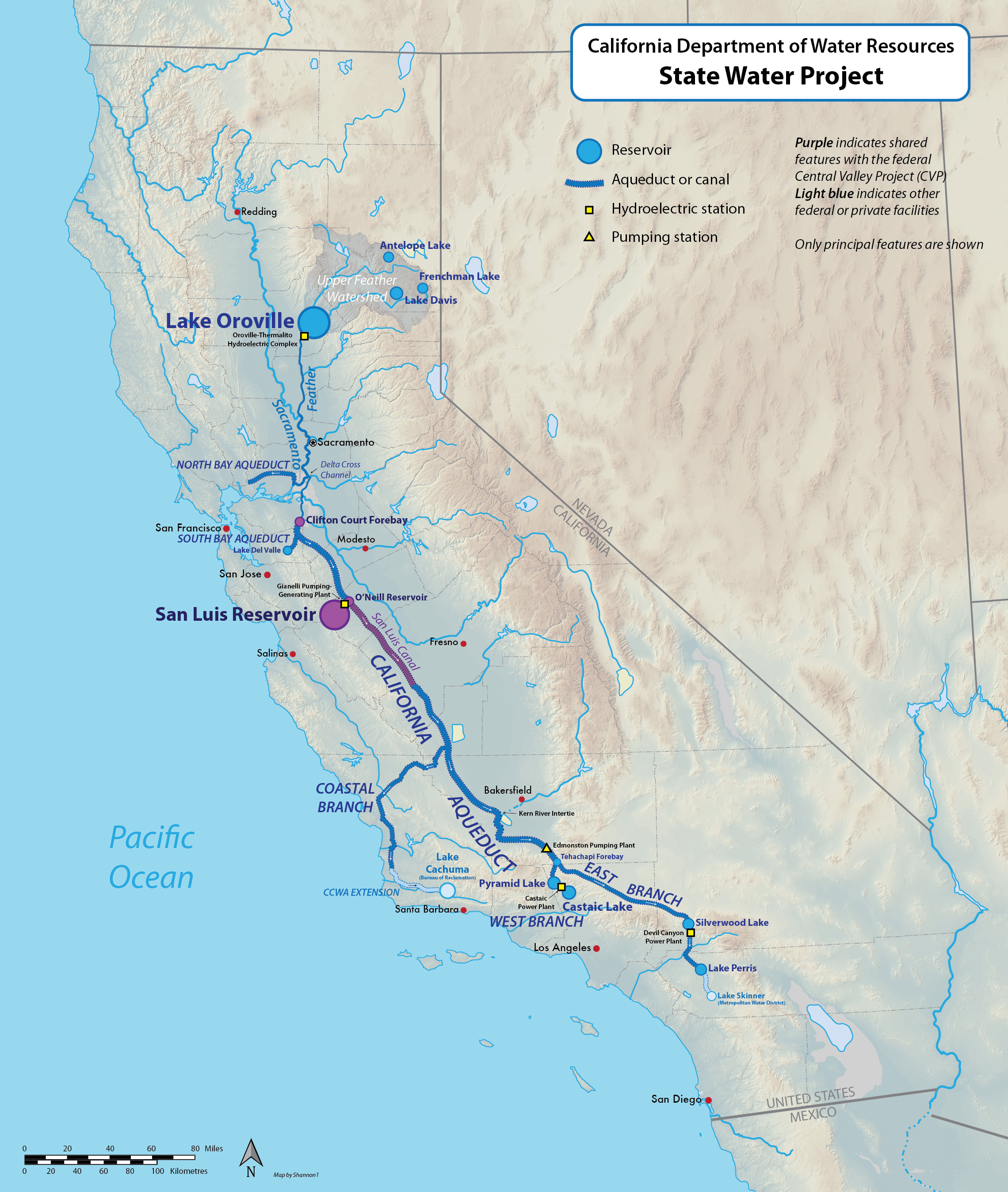 A map showing the main features of the State Water Project, which provides drinking water for over 25 million people in California. Shaded relief from USGS data. Intended to replace outdated File:State_water_project.jpg.